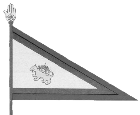 Flag of Iran (Triangular banner of Moḥammad Shah), from a painting dated 1200/1854